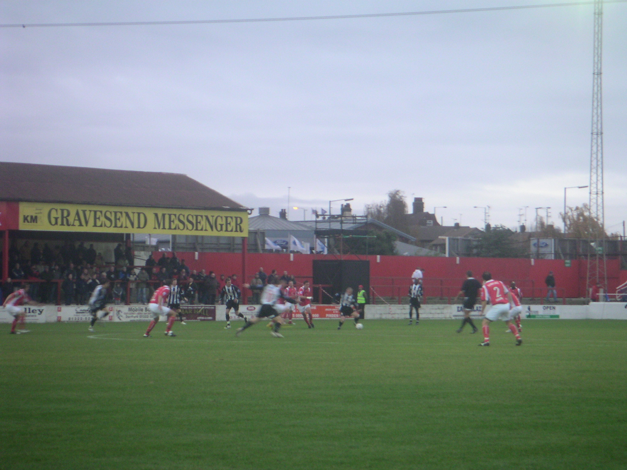 The corner of the Main Stand of the Stonebridge Road Stadium, home of Ebbsfleet United F.C., in Northfleet, Kent, England. Taken on en:23 November en:2007 during the Conference National match between Ebbsfleet and the Stafford Rangers.